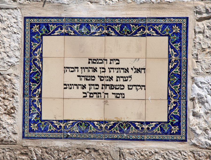 The Haji Adoniyah synagogue in the Bukhari neighbourhood in Jerusalem, Adoniyahu HaCohen street, 16. plaque on the entrance of the synagogue with the date 1902 (ה׳תרס״ב). The inscription reads : "The synagogue of Haji Adoniayahu son of Aharon Hacohen of the Crypto-Jews of Mashhad, dedicated by the Cohen Aharon family in 1902."